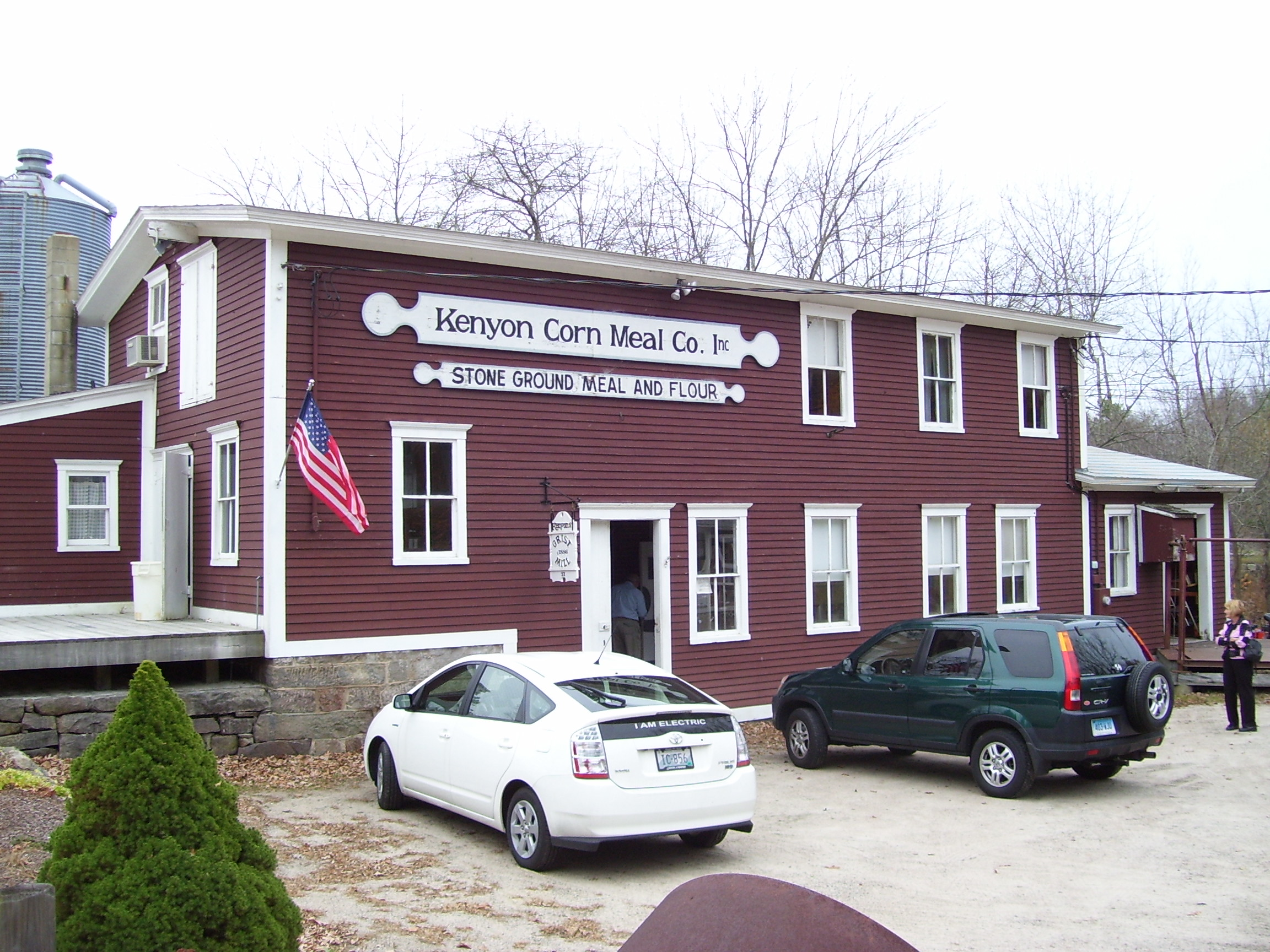 This is my 2008 photo of Kenyon Corn Meal Company in Usquepag, Rhode Island.